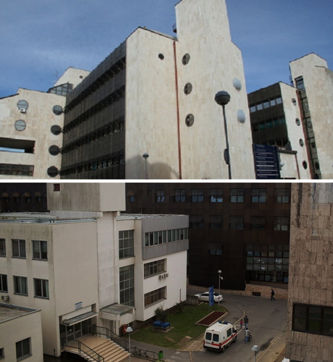 University Hospital Osijek, Croatia